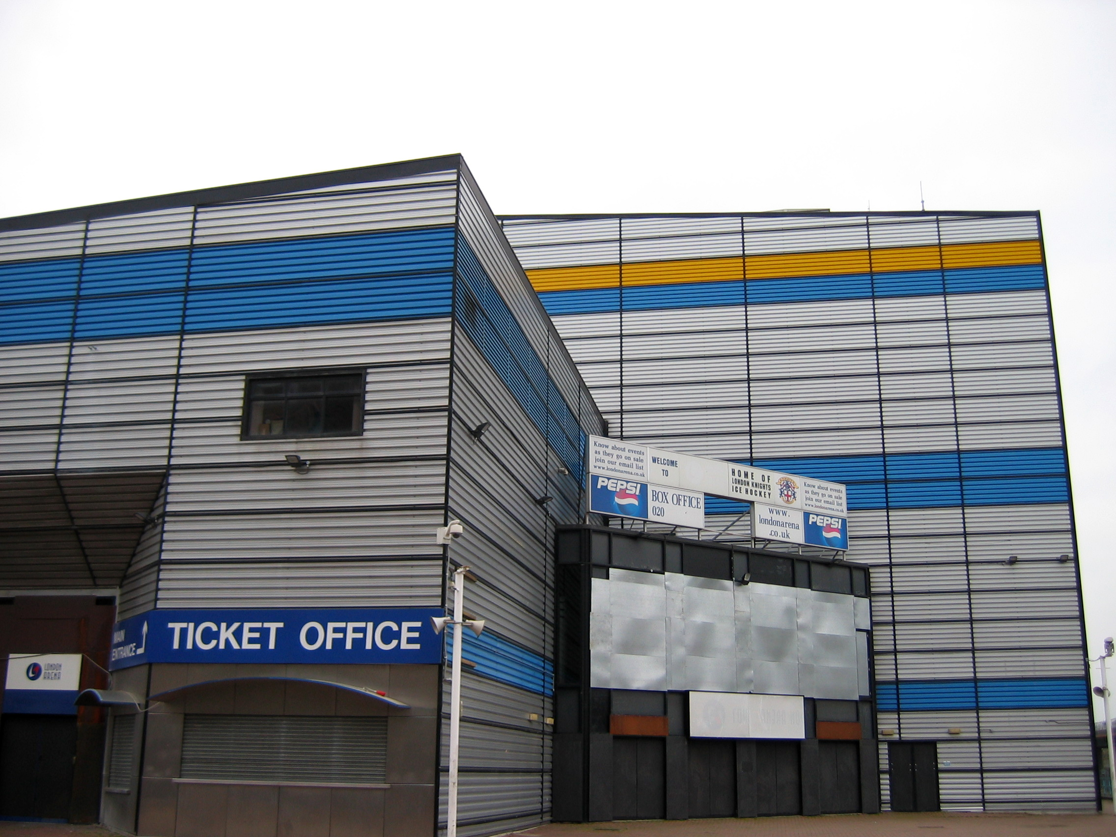 The former London Arena - now demolished.